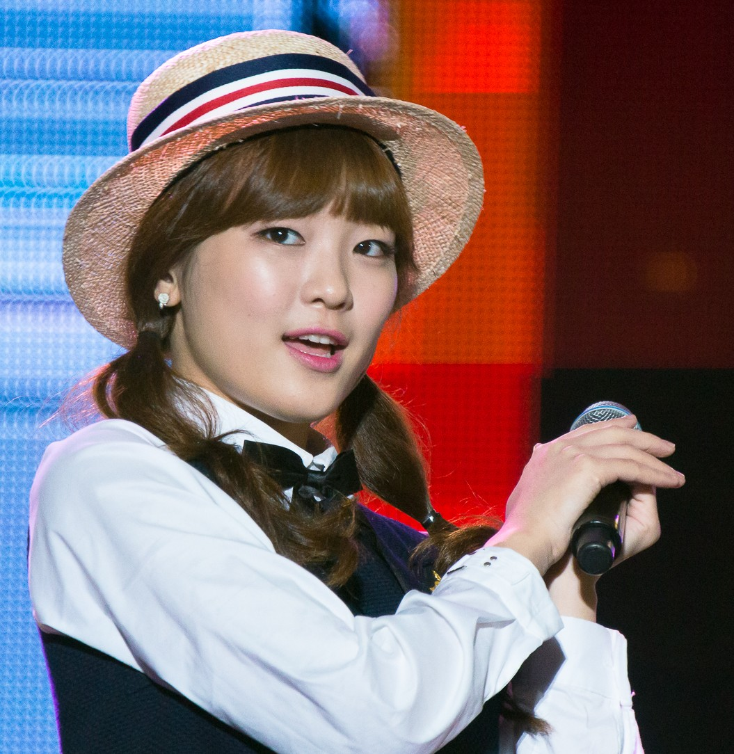 Seo Eun-kyo at Show Music Core Chuseok Special, 14 September 2013